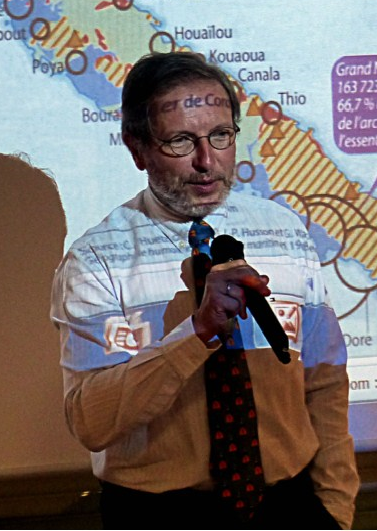 Jean-Jacques Brot delivering a speech about New Caledonia.